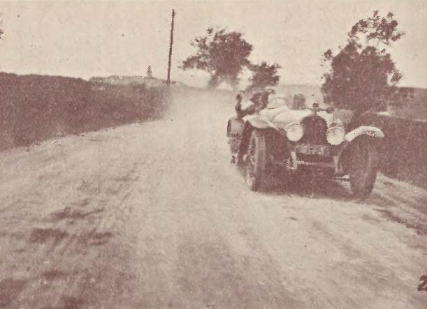 1927 Rally Poland